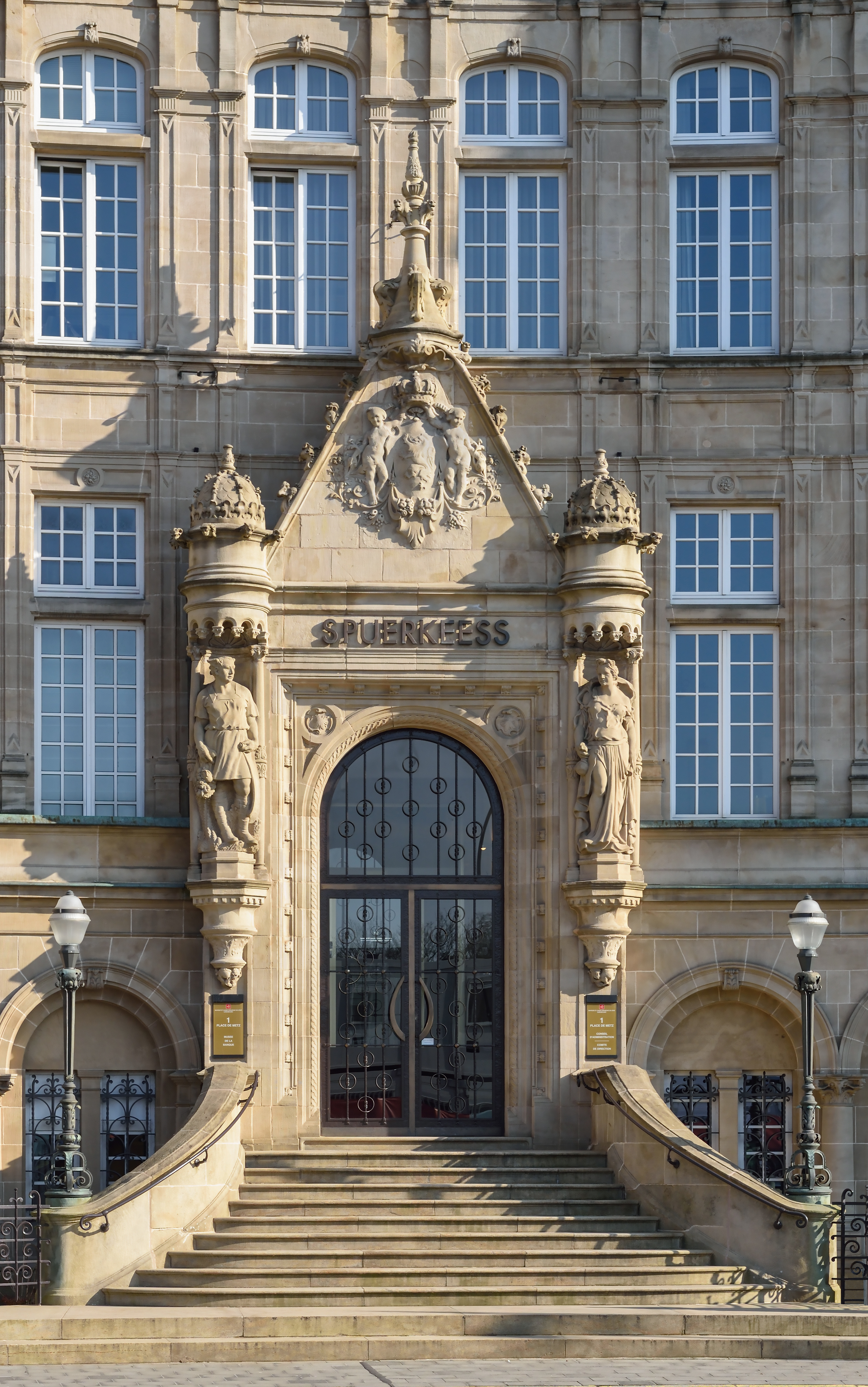 Portal of Banque et caisse d'épargne de l'Etat in Luxembourg City, place de Metz. Mercury, the Roman god of commerce is at the left, Ceres, the goddess of agriculture is at the right of the entry. Both statues are by Jean Mich (1871-1932).